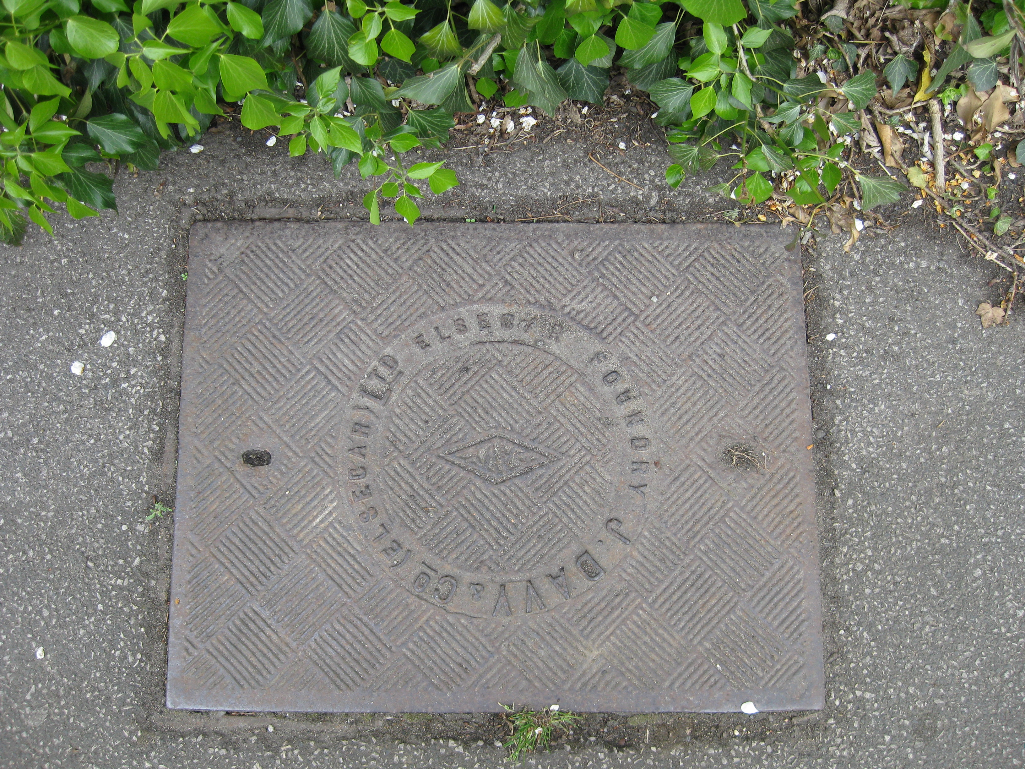 Square manhole cover with the words J Davey & Co (Elsecar) Ltd Elsecar Foundry. In Methley, near St Oswald's Church.